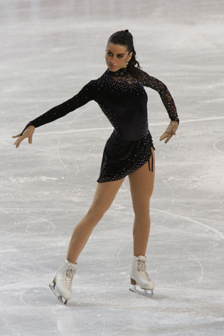 Valentina Marchei at the 2010 European Figure Skating Championships.